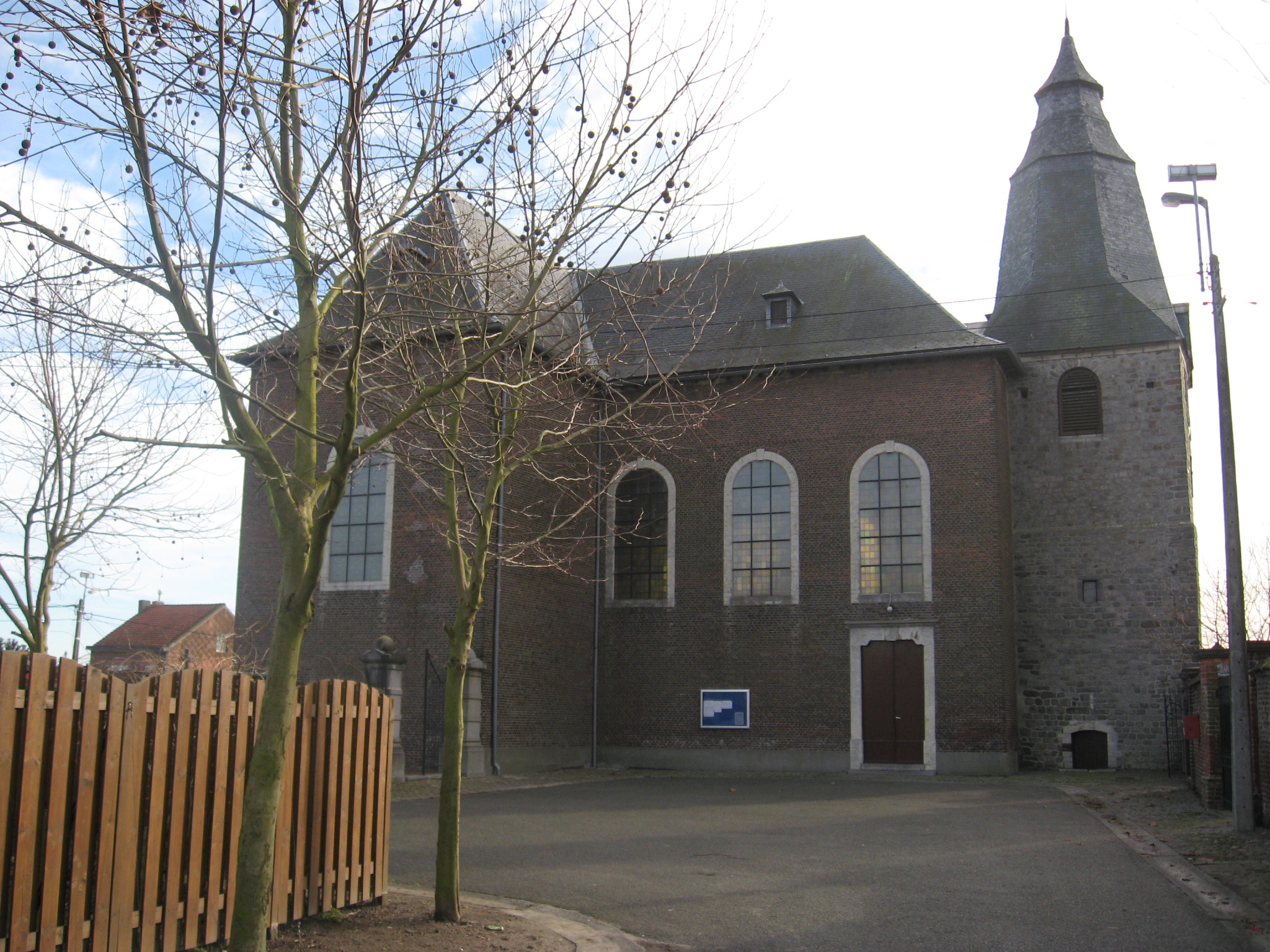 Church of Saint Sulpitius in Overhespen, Linter, Flemish Brabant, Belgium